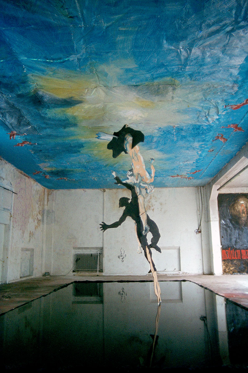 Installation by Dutch artist group 'De Vier Evangelisten (1983-1994) in W139, Amsterdam 1983